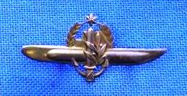 Senior Submariner badge of the Israeli Navy